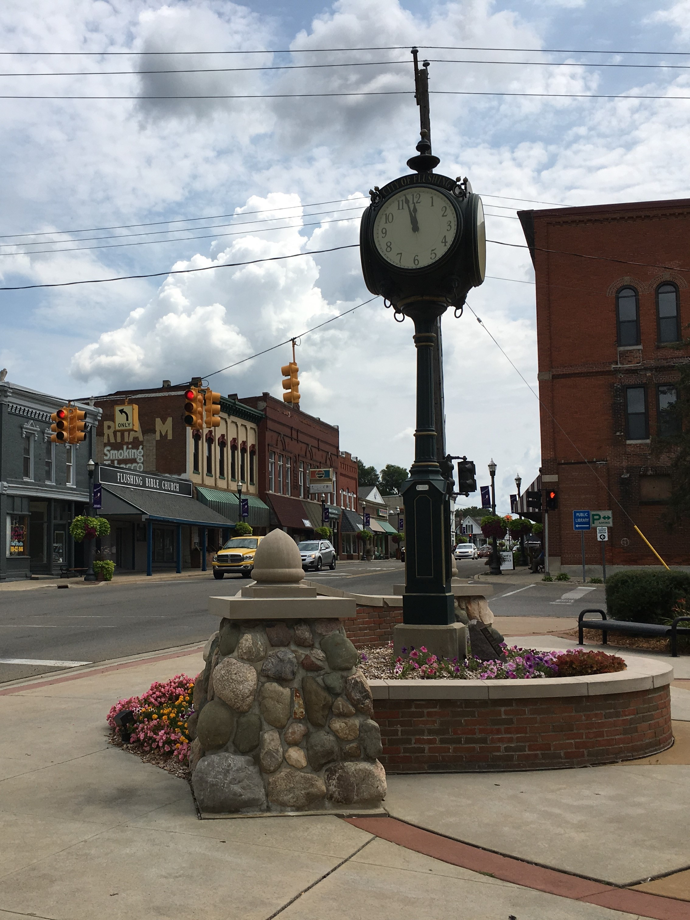 Downtown Flushing facing east from bridge Aug 6 2017